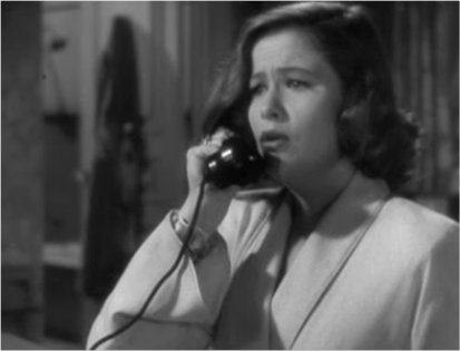 Screenshot taken by me (Icea) from the trailer to the movie Sunset Blvd.